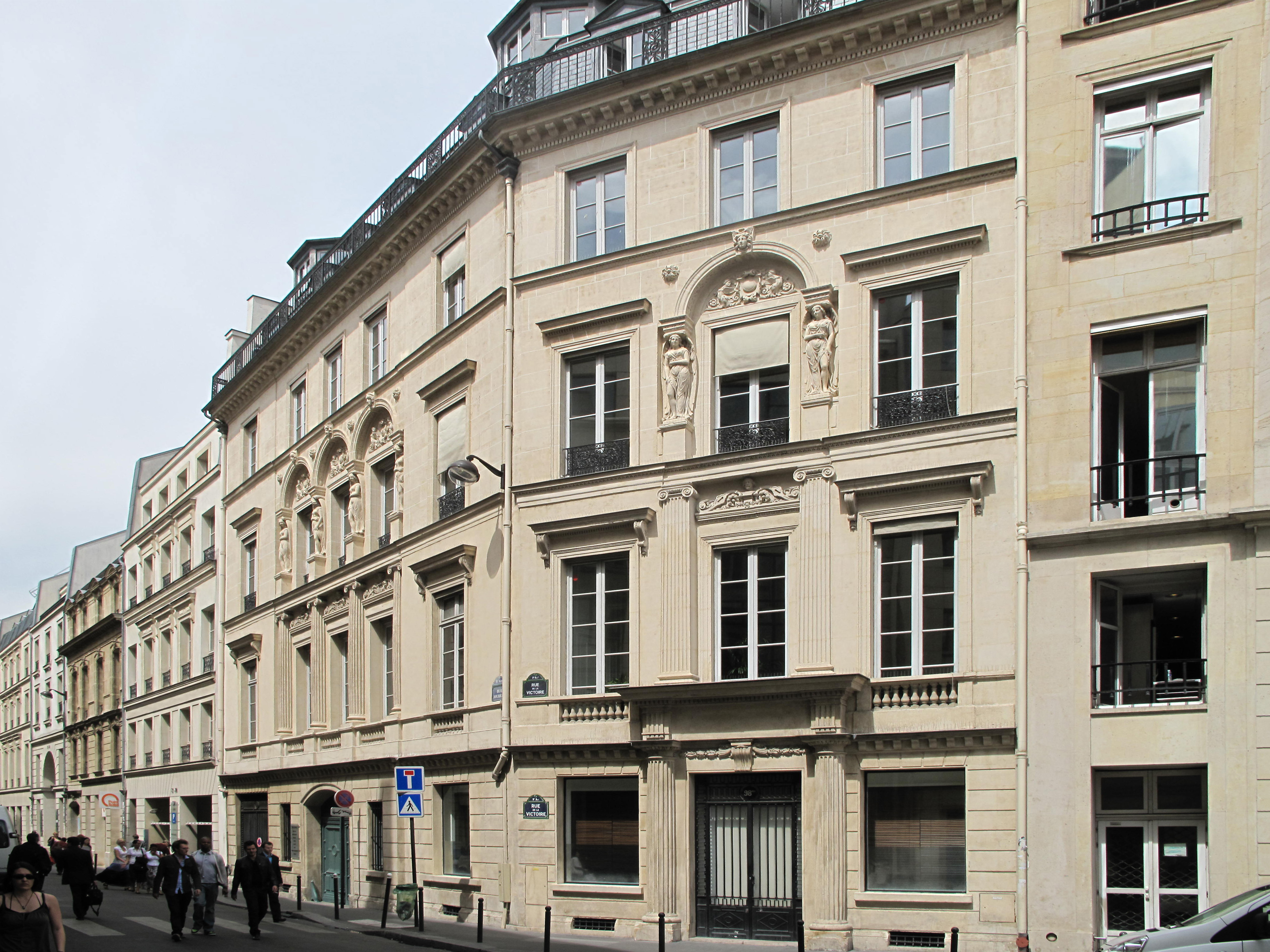 Hôtel Dervieux : built by the architect Bélanger for his wife, the dancer Mlle Dervieux at the junction of the rue Joubert and rue de la Victoire, Paris 9th arr.